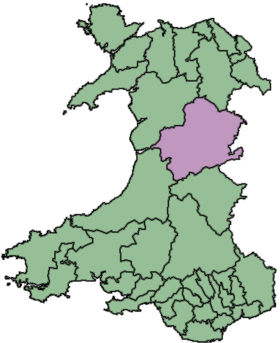 Montgomery Area of Search